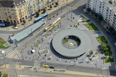 Former Mushroom terminal, Budapest District XI